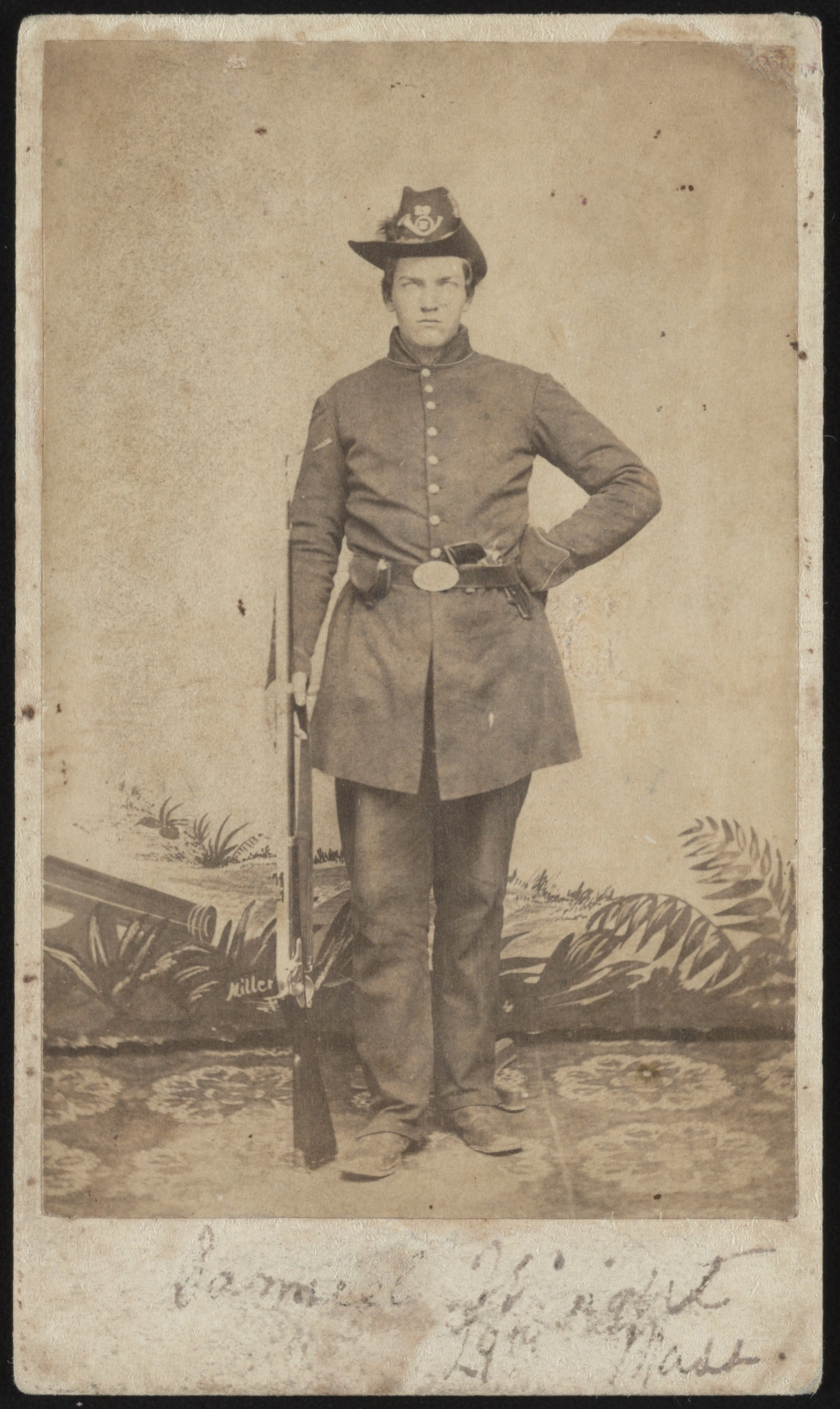 Title: Sergeant Samuel Cole Wright of Co. E, 29th Massachusetts Infantry Regiment, standing in uniform with revolver and musket in front of painted backdrop] / Union Photographic Gallery, "Camp Butler," Newport News, Va. ; H.P. Ross, South Groton, Mass. ; J. Sidney Miller, Nashua, N.H Abstract/medium: 1 photograph : albumen print on card mount ; mount 11 x 7 cm (carte de visite format)